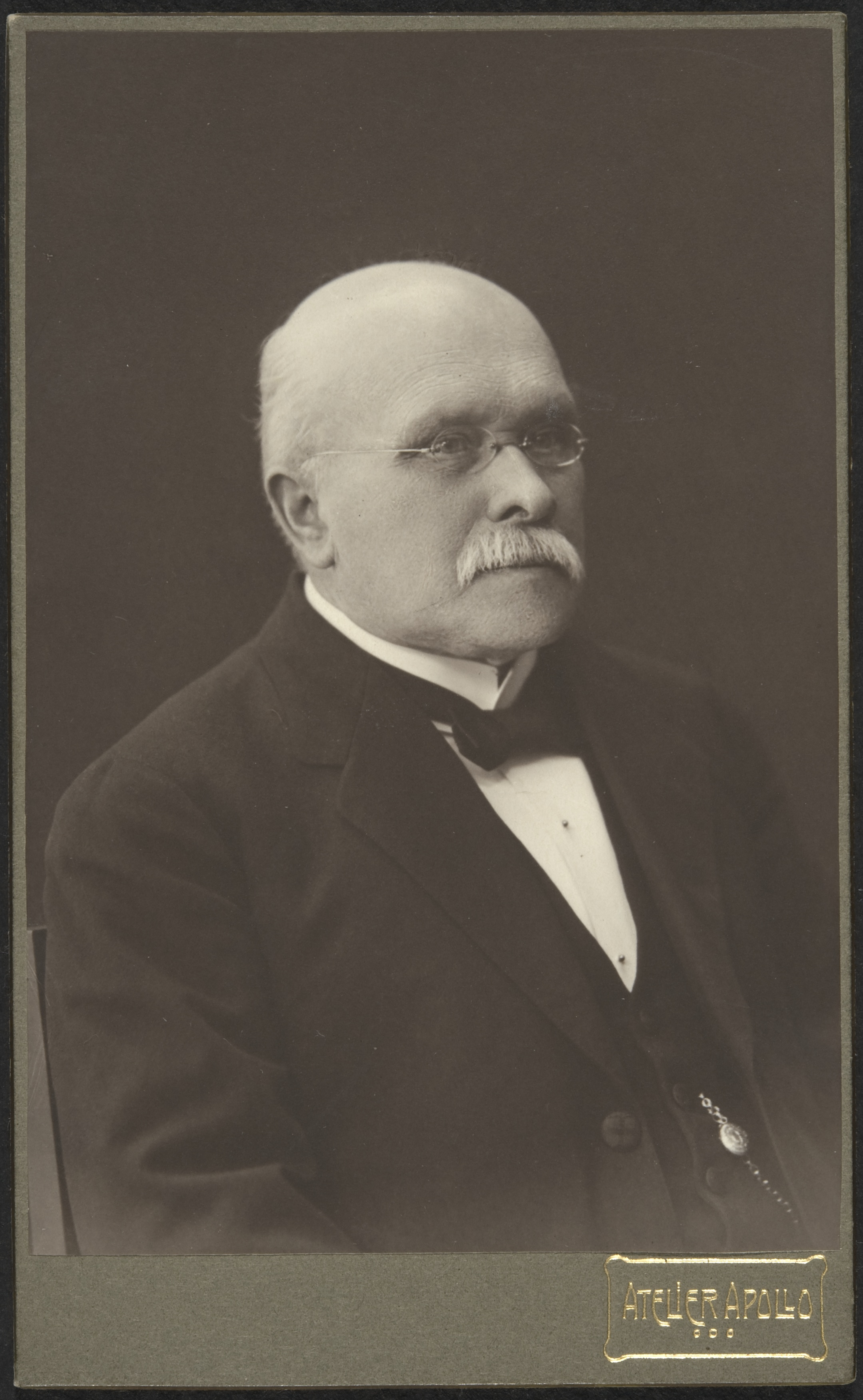 Photograph of the Finnish historian Magnus Gottfrid Schybergson (1851–1925).